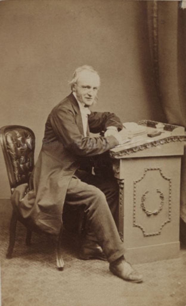 Carte de visite photograph of William Crawford Williamson (1816-1895), English palaeobotanist